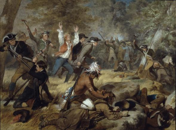 Oil on canvas painting depicting the Wyoming Massacre, July 3, 1778.